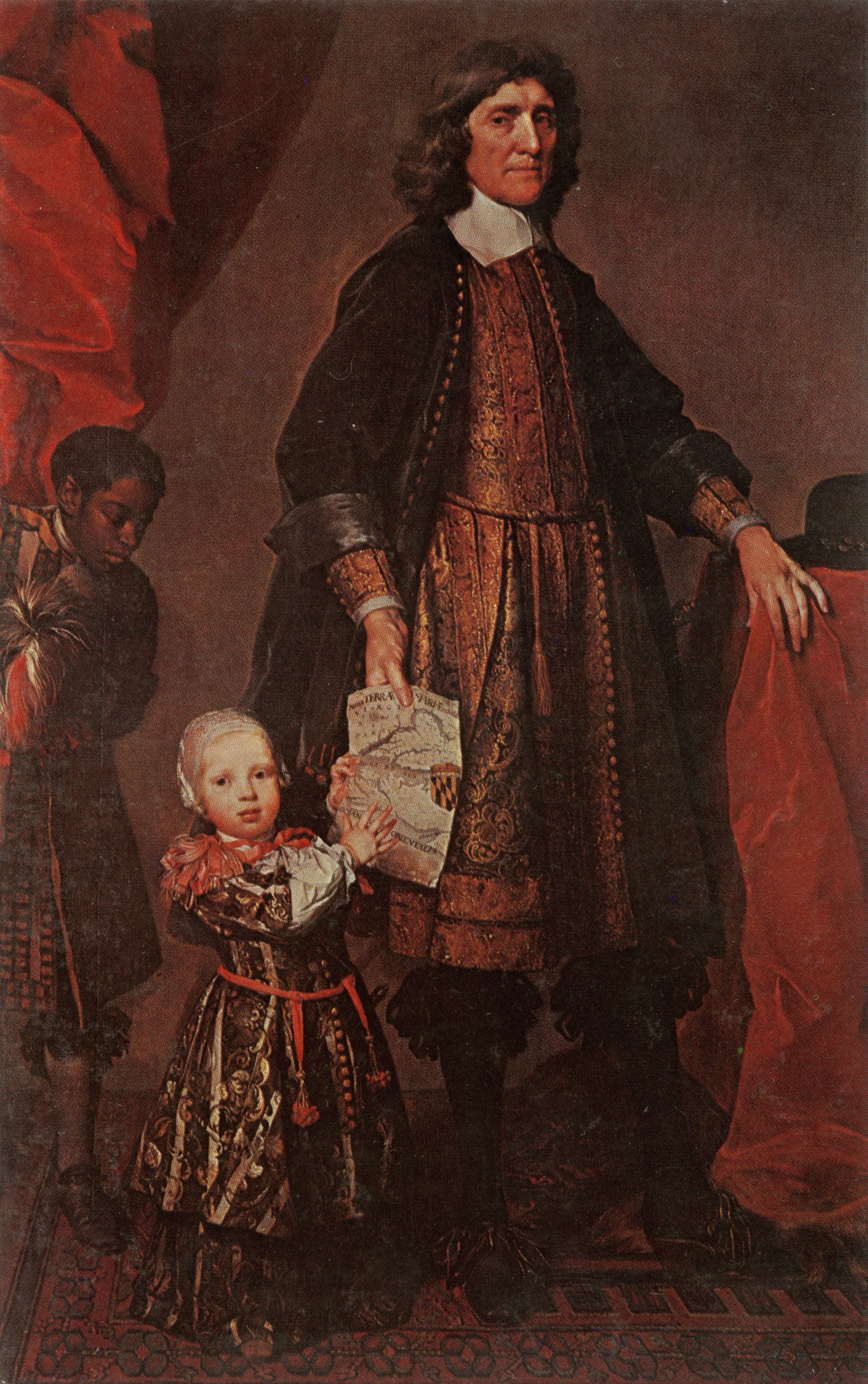 Portrait of Cecil Calvert, circa 1951-1970. Caption [back of the post card] reads: "Cecil Calvert, 2nd Baron of Baltimore, founder of Maryland. Original by Soest at Enoch Pratt Free Library, used by permission. Maryland Historical Society, 201 W. Monument Street, Baltimore 1, Maryland." Postcard number: 10289-C.